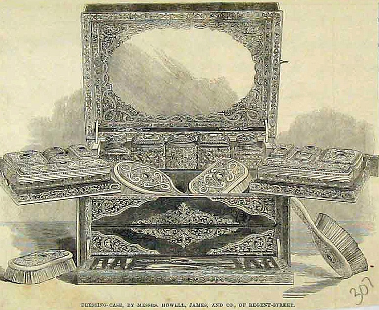 Howell James & Co. Dressing case drawing from Illustrated London News (1862), an entry for the International Exhibition of 1862